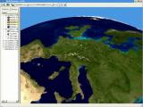 Earth3D